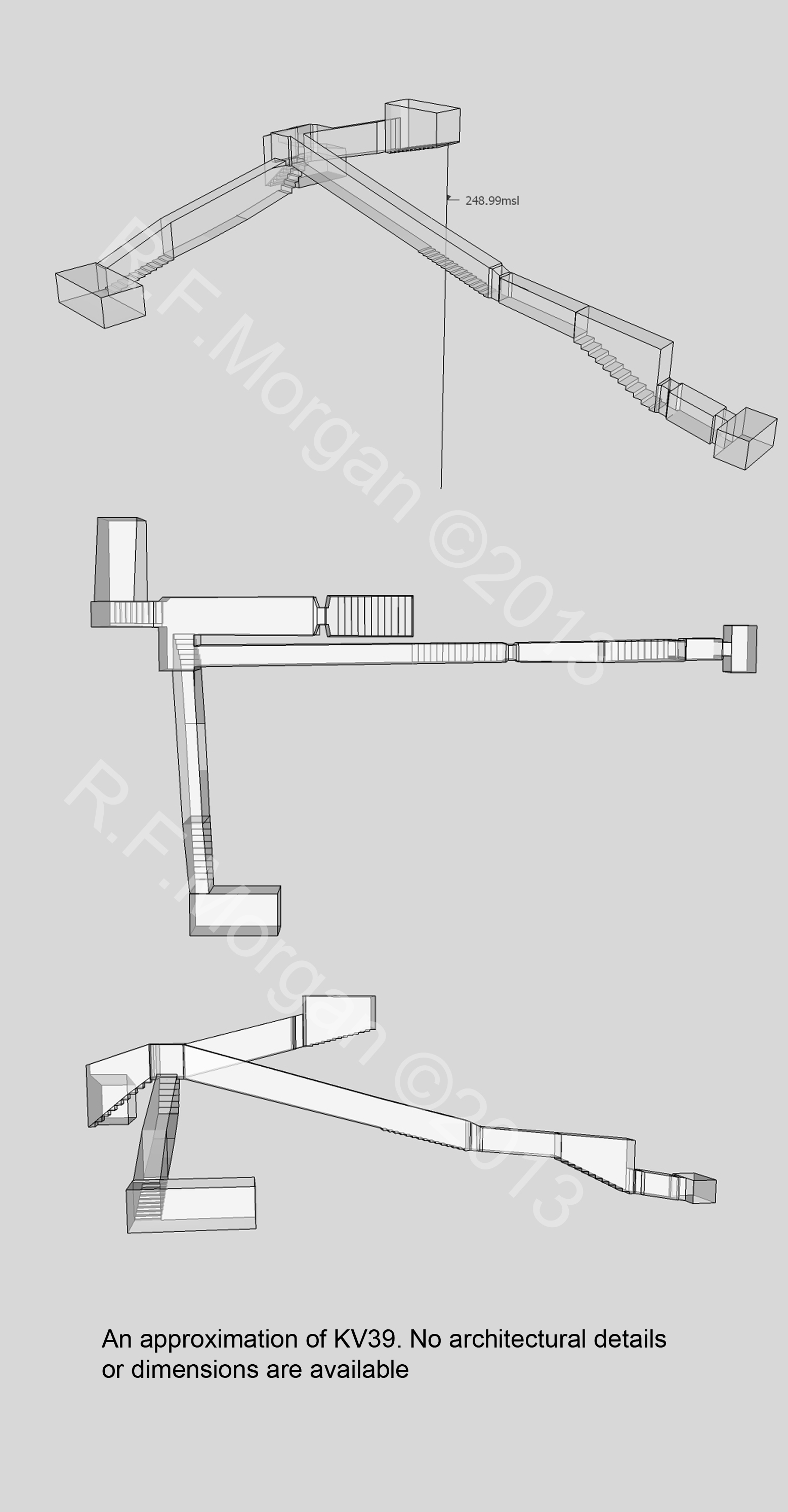 Isometric, plan and elevation images of KV39 taken from a 3d model